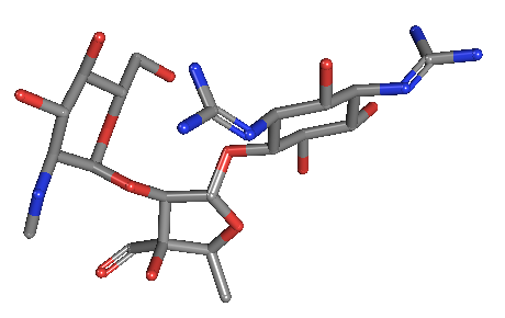 Streptomycin, representative low energy conformer, MM2-generated; custom re-posing of one Feb 2014 Pubchem-generated conformer of the title molecule, to make visible all three rings, and to match as closely as feasible the general pose of an existing Wikimedia streptomycin image. LeProf